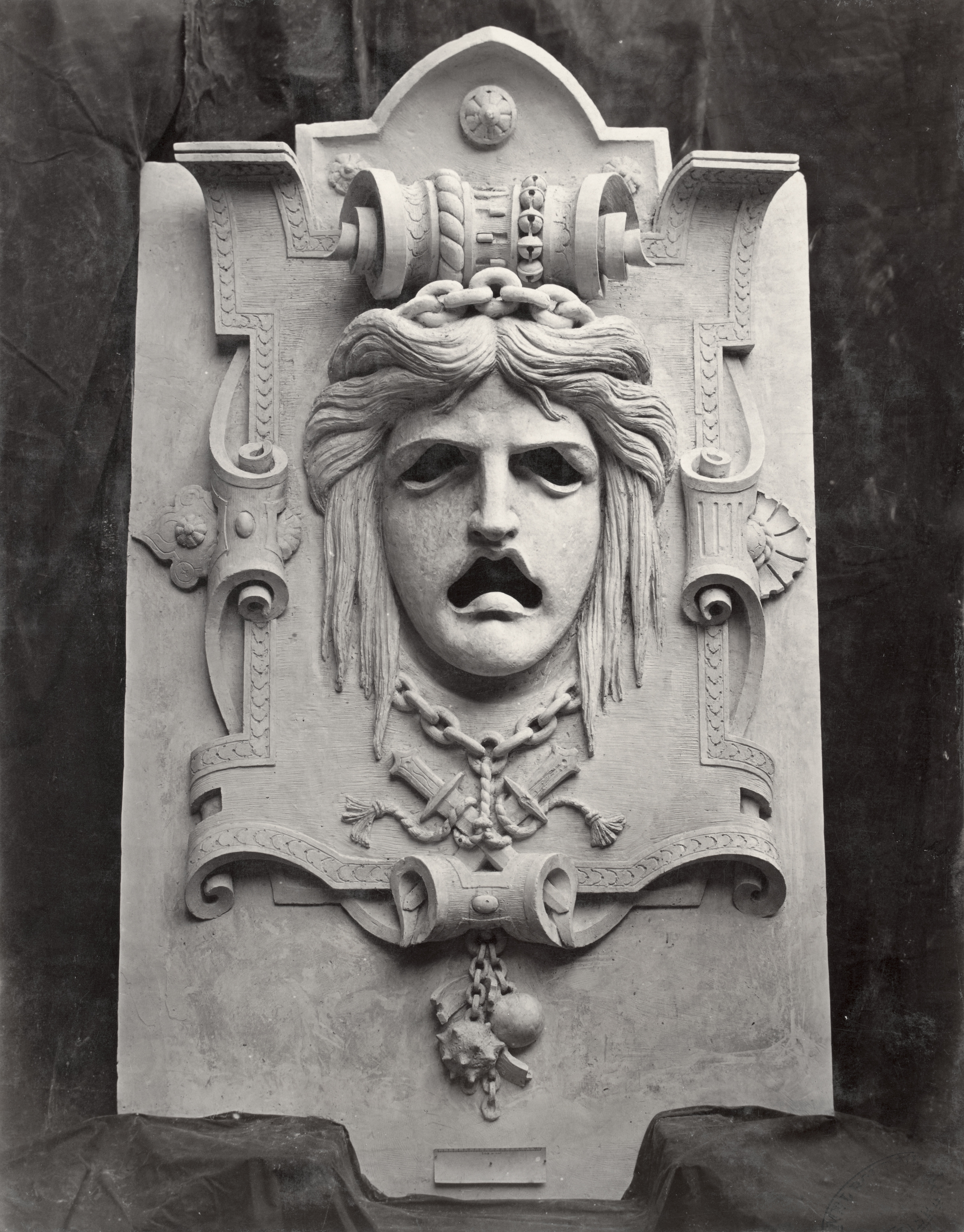 Stone tragic mask bordered with scroll work, Théâtre du Vaudeville, Paris.